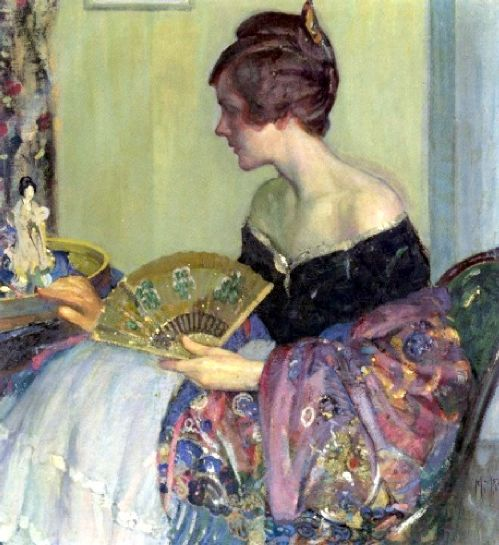 Chinese_Statuette